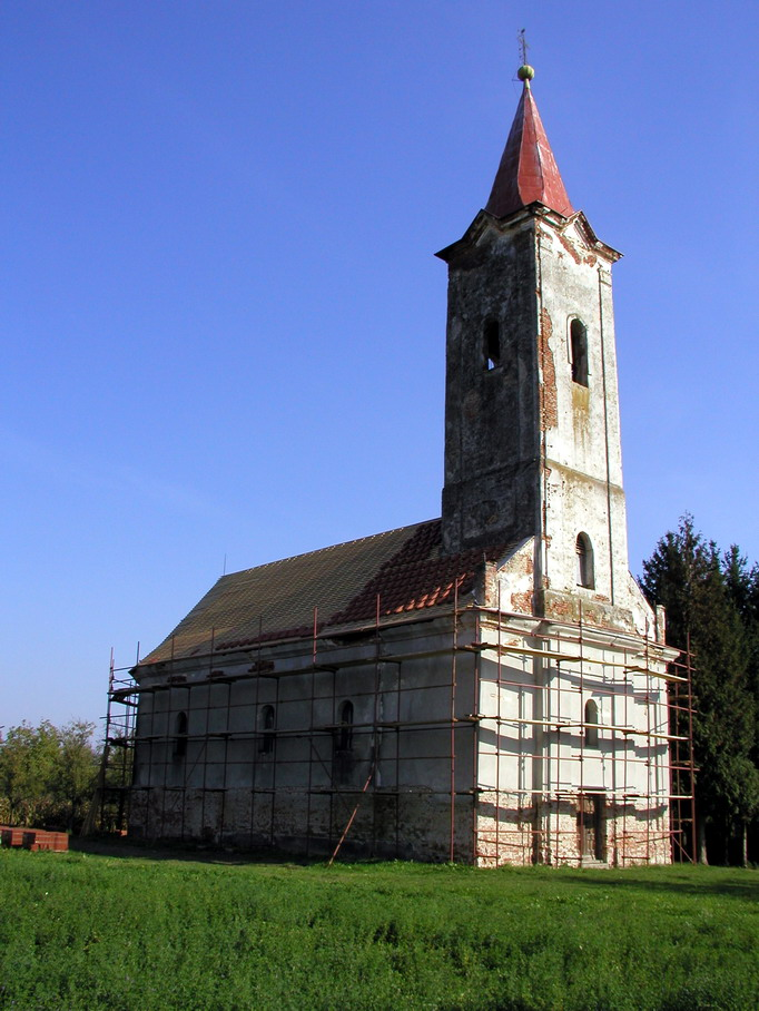 Serbian Orthodox St. George church in Grubišno Polje, CroatiaHrvatski: Pravoslavna crkva Svetog Georgija u Grubišnom Polju, podignuta od 1773. do 1775. Na slici je prikazana za vrijeme obnove.